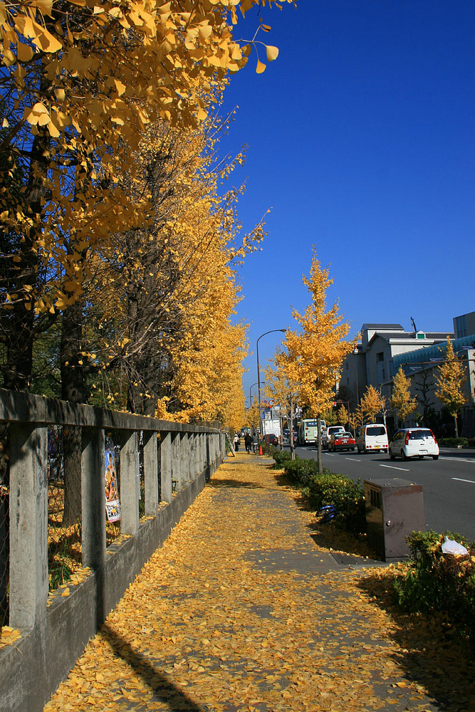 Kyoto, Japan. Leaves in Autumn.